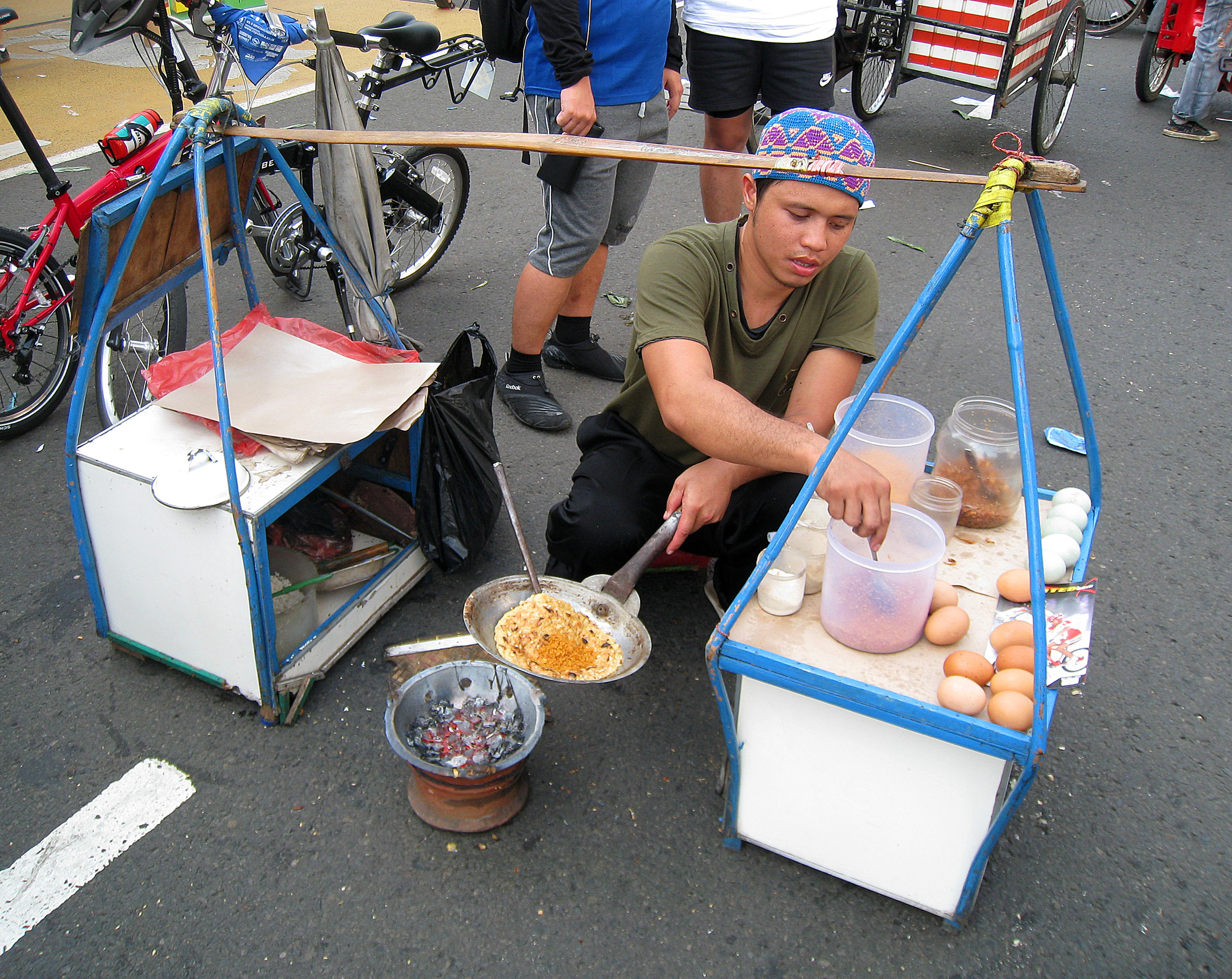 Kerak Telor vendor on Jakarta street. Kerak Telor is traditional Betawi spicy omelette dish. Made from the mixture of rice, egg, spices, spicy coconut granule, and fried shallots.